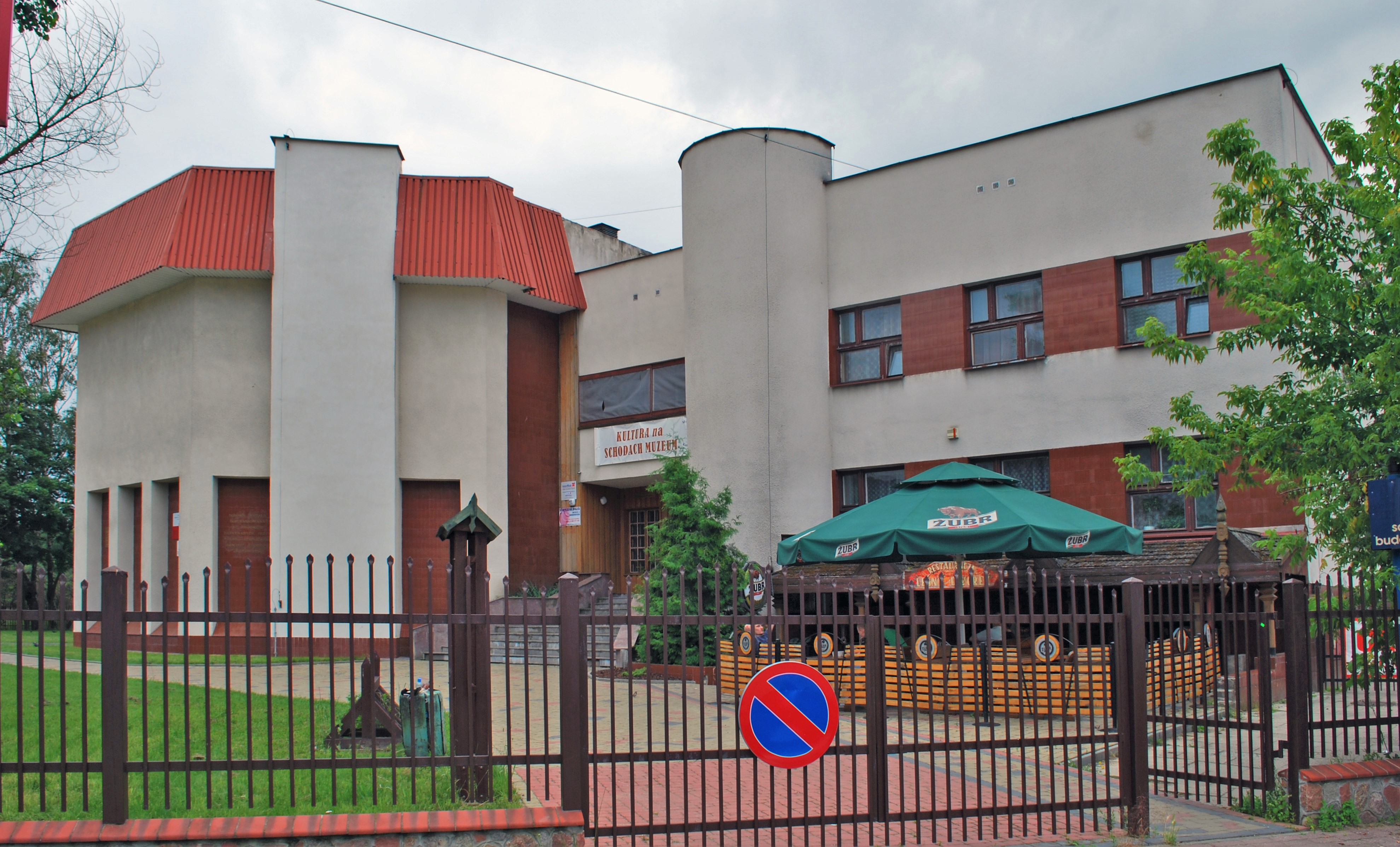 This photo from Podlaskie Voievodeship was taken during Polish Wikiexpedition 2009 set up by Wikimedia Polska Association. The making of this document was supported by Wikimedia Polska. Muzeum Kultury Bialoruskiej w Hajnówce